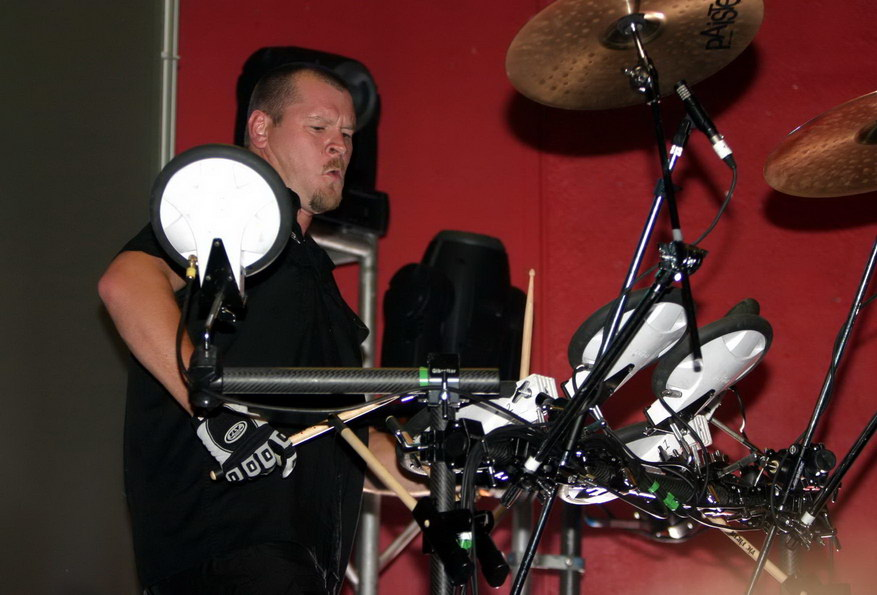 Mark Jackson Live at New City, Edmonton, September, 2007